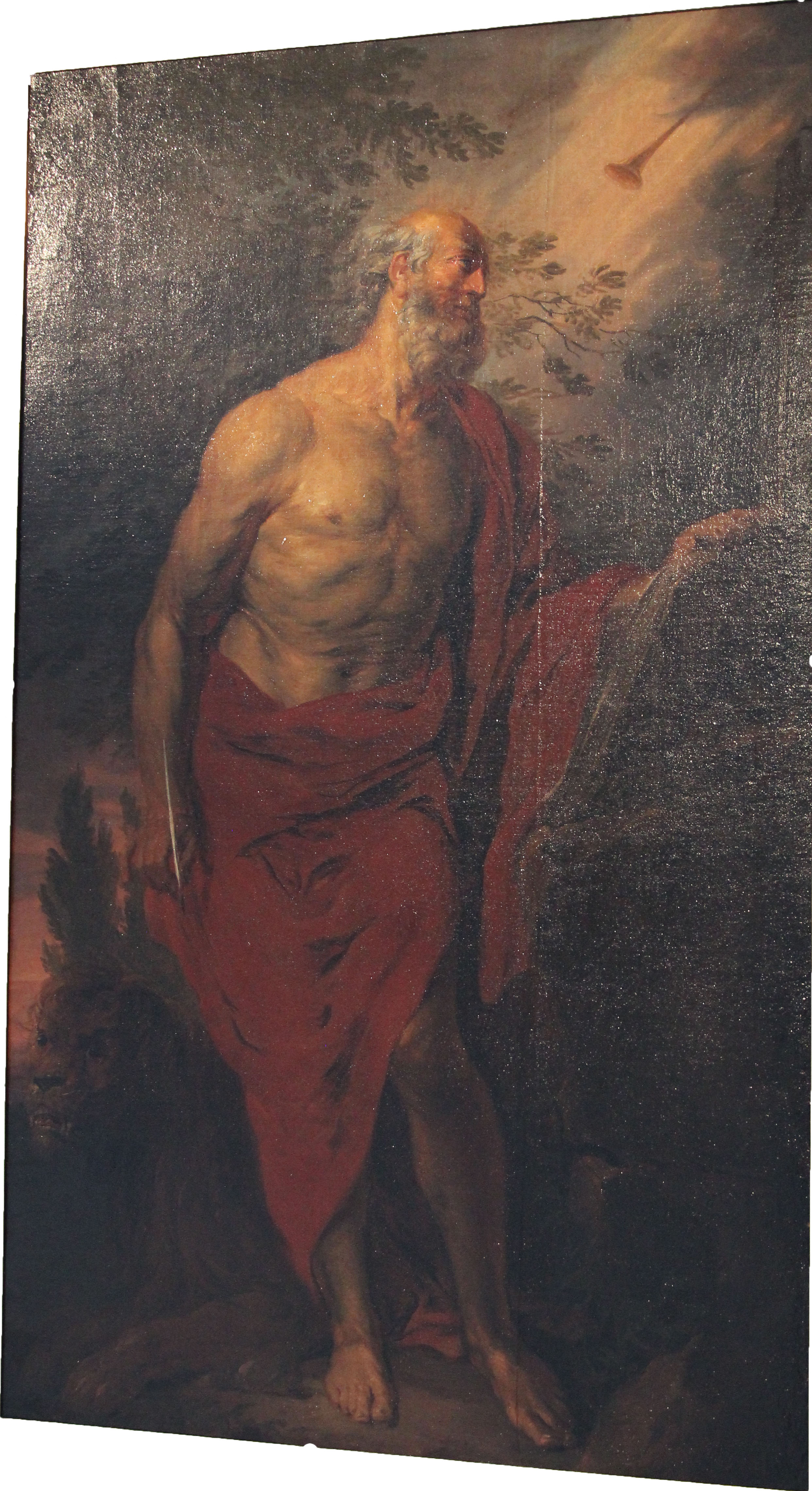 Michael Willman St. Jerome (1695) from National Museum in Wroclaw (originally in Cistercian monastery Lubiąż Abbey).